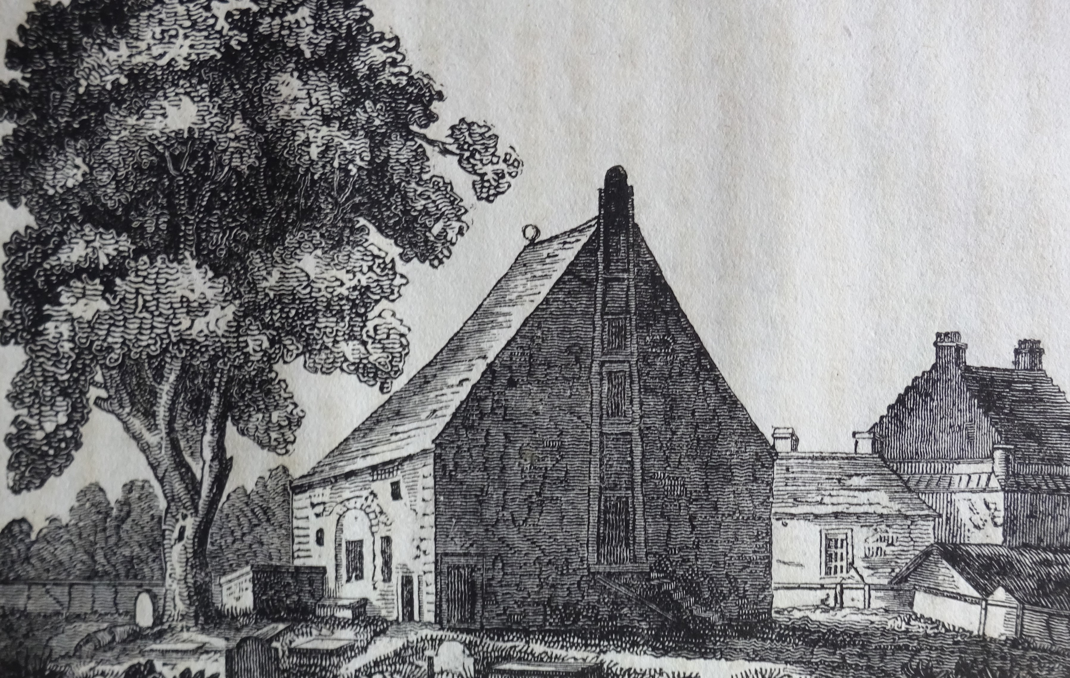 Mauchline Kirk in 1820. From Hew Ainslie's 'A Pilgrimage to the Land of Burns'. The Abbot's Tower to the right in the background. The church that Robert Burns attended.